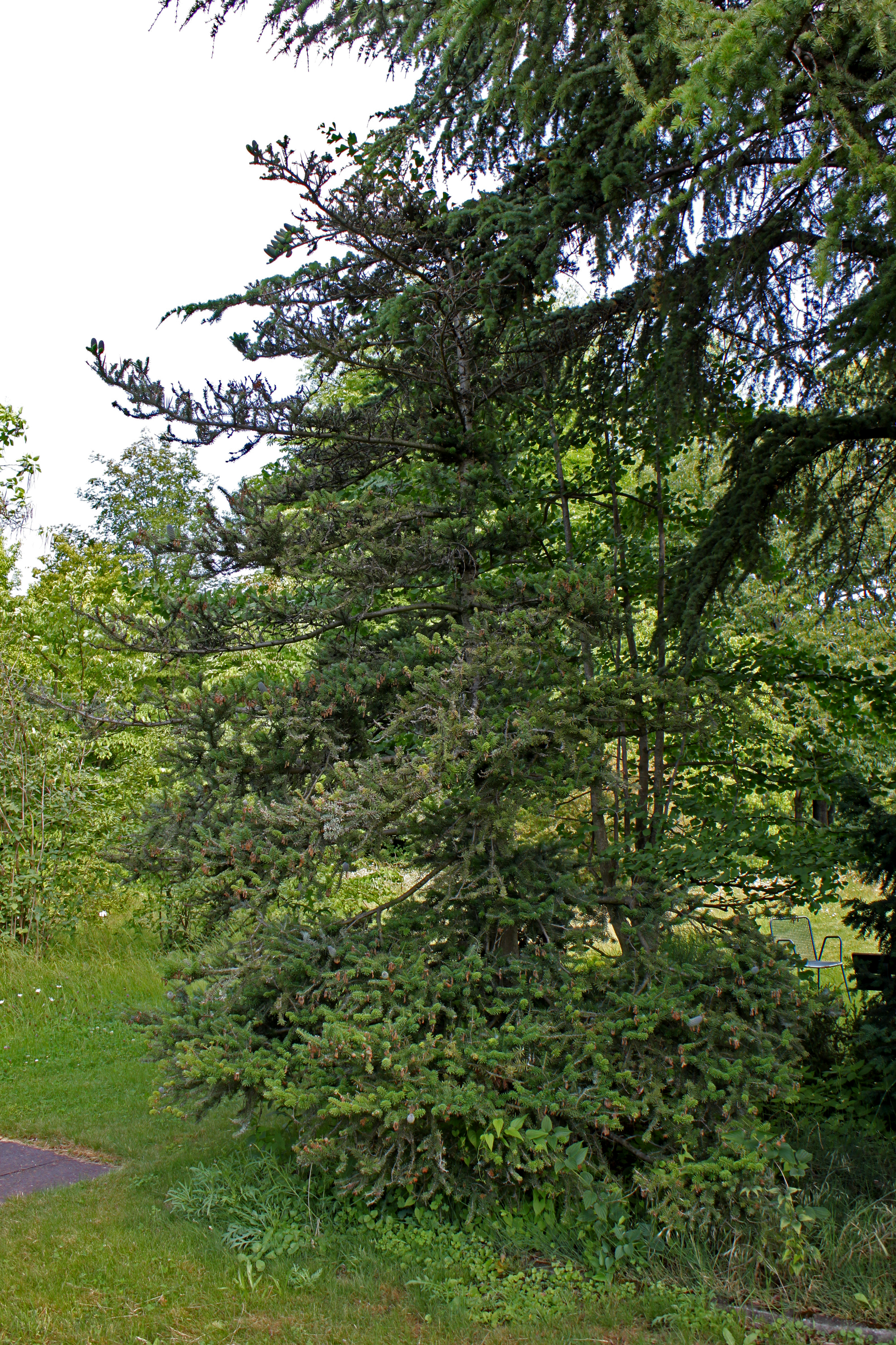 Abies koreana, Pinaceae, Korean Fir, habitus; Botanical Garden KIT, Karlsruhe, Germany.